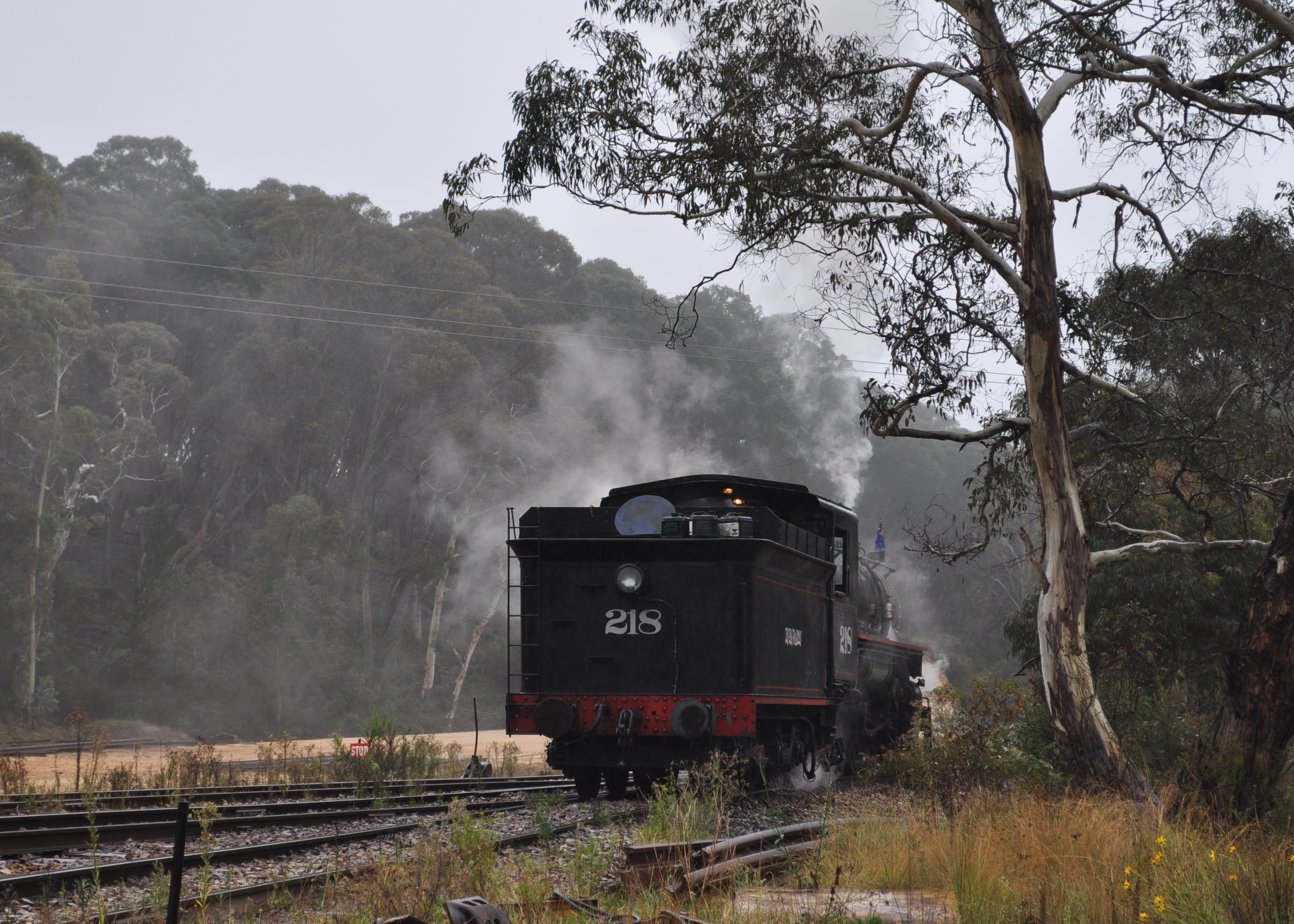 ZigZag Railway steam locomotive 218 in Clarence yard preparing to run around the train